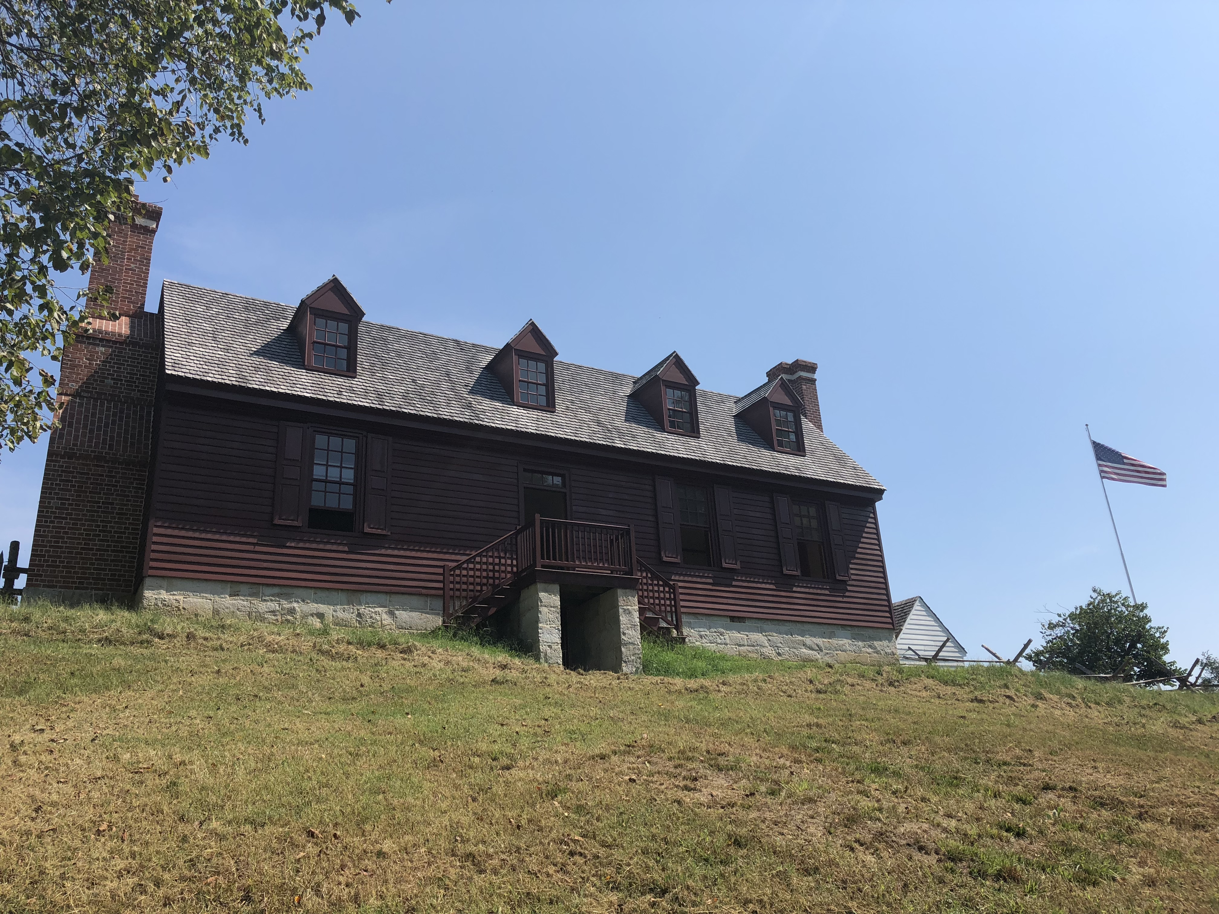 The replica of George Washington's boyhood home at Ferry Farm in Stafford County, Virginia completed in 2018 on the site of the original house.